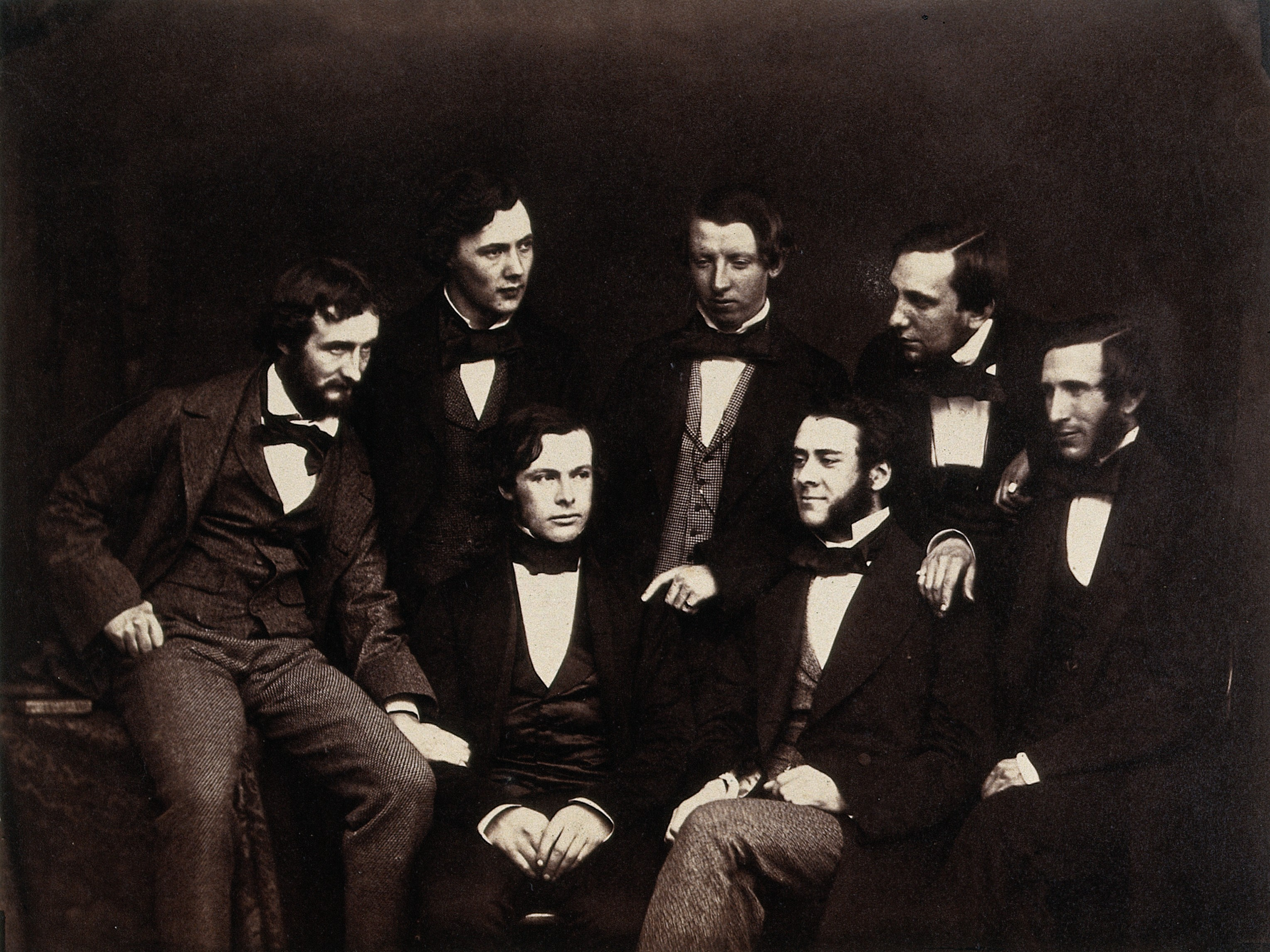 Residents at the Old Royal Infirmary, Edinburgh, summer 1854: left to right, John Beddoe (seated left), John Kirk (back row), Joseph Lister (seated in front row), Pringle (back row), David Christison (seated), Patrick Heron Watson (back row), Alexander Struthers (seated right). Photograph. Iconographic Collections Keywords: Patrick Heron Watson; portrait photographs; Royal Infirmary of Edinburgh.; John Beddoe; John Kirk; David Christison; Joseph Lister; George Hogarth Pringle; Alexander Struthers